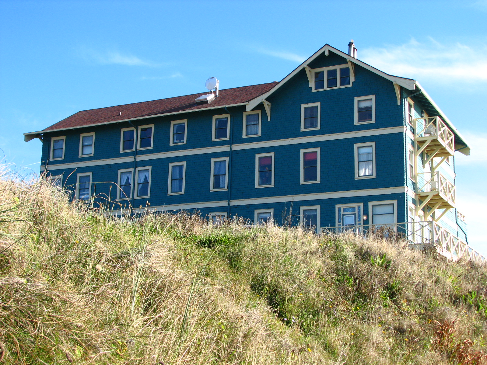 The historic New Cliff House (built 1913), now the Sylvia Beach Hotel (since 1987), located at 267 Northwest Cliff Street in Newport, Oregon, United States, is listed on the US National Register of Historic Places. It is today in use as a boutique hotel.